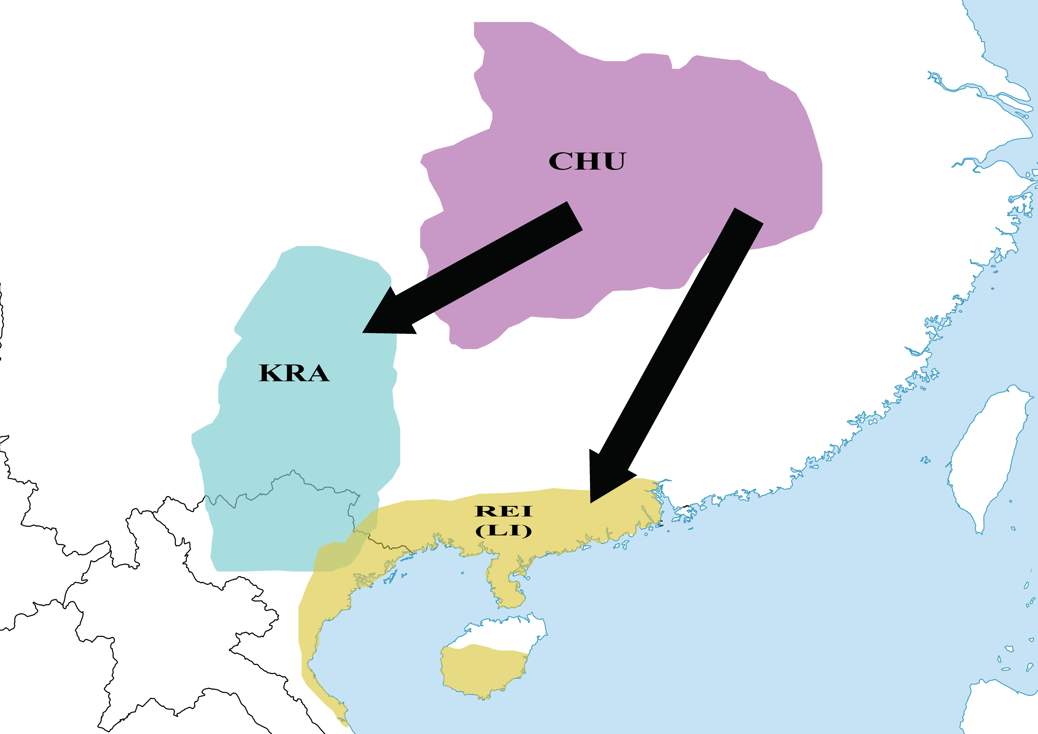 Kra and Hlai (or Li, Rei) migration routes from the ancient state of Chu.